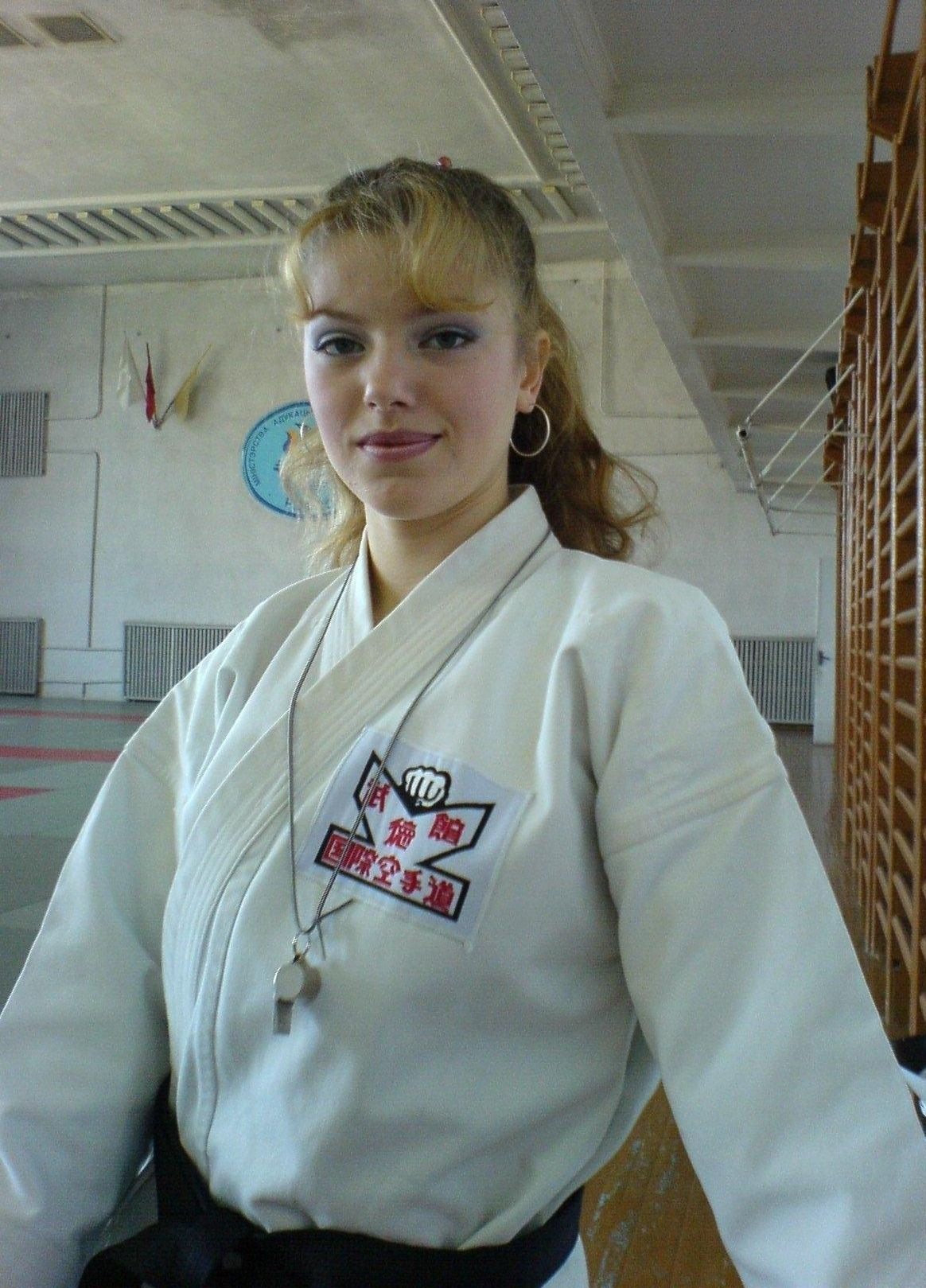 Sensei Lyudmila Andreevna Vedernikova wearing Gi with IKA patch